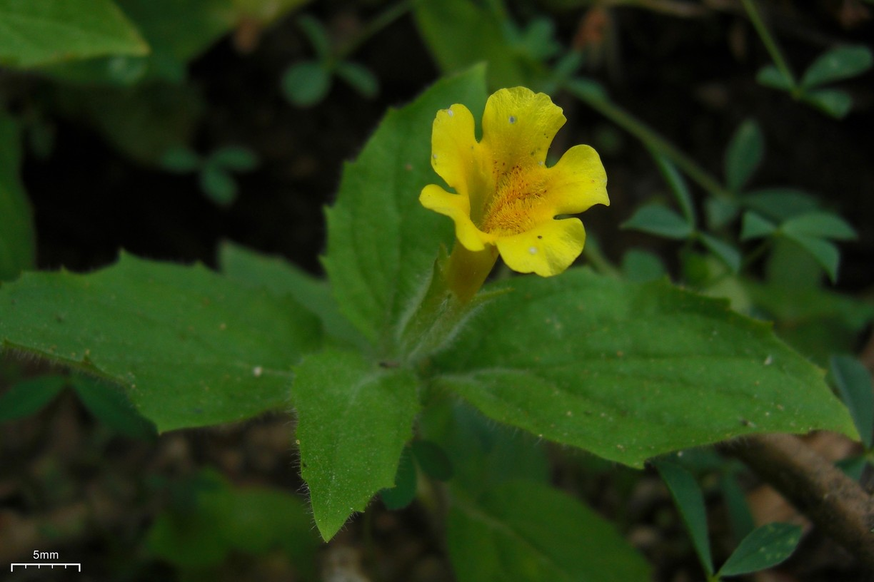 Mimulus moschatus — Muskflower. On Mount Baden-Powell in the San Gabriel Mountains, Los Angeles County, California. 20100826.90 (Thanks for the id correction, Curtis!)